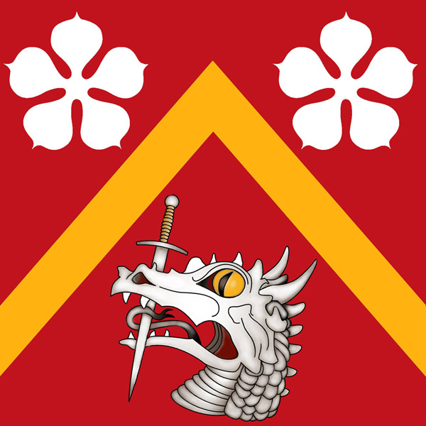 The personal Banner of John A, Duncan of Sketraw, Laird of Sketraw. Gules a chevronel Or in chief two cinquefoils and in base a dragon’s head couped holding between its teeth a sword in bend sinister hilt upward Argent hilt Or pommel Argent. (